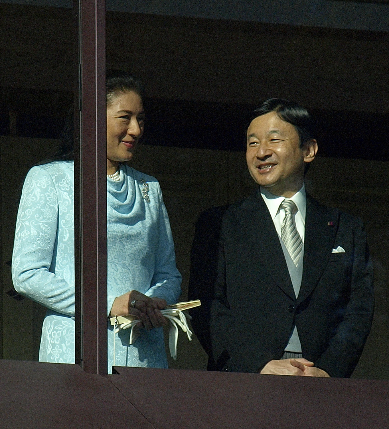 The new year greeting 2011 at the Tokyo Imperial Palace. Princess Ayako of Takamado, Princess Tsuguko of Takamado, Princess Akiko of Mikasa, Princess Hitachi, Prince Hitachi, Crown Princess Masako, Crown Prince Naruhito(from left to right).